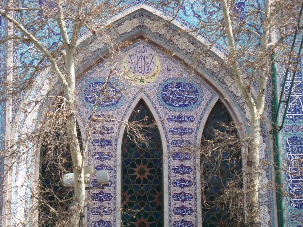 Hosseiniyeh Ershad in Tehran